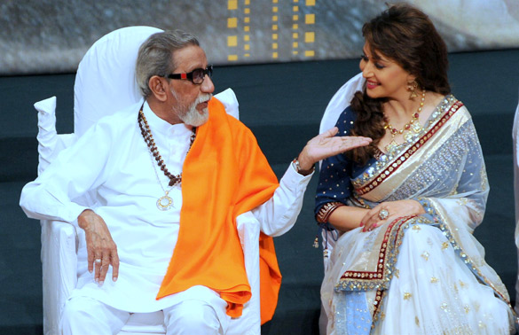 Bal Thackeray and Madhuri Dixit at 70th Master Dinanath Mangeshkar Awards